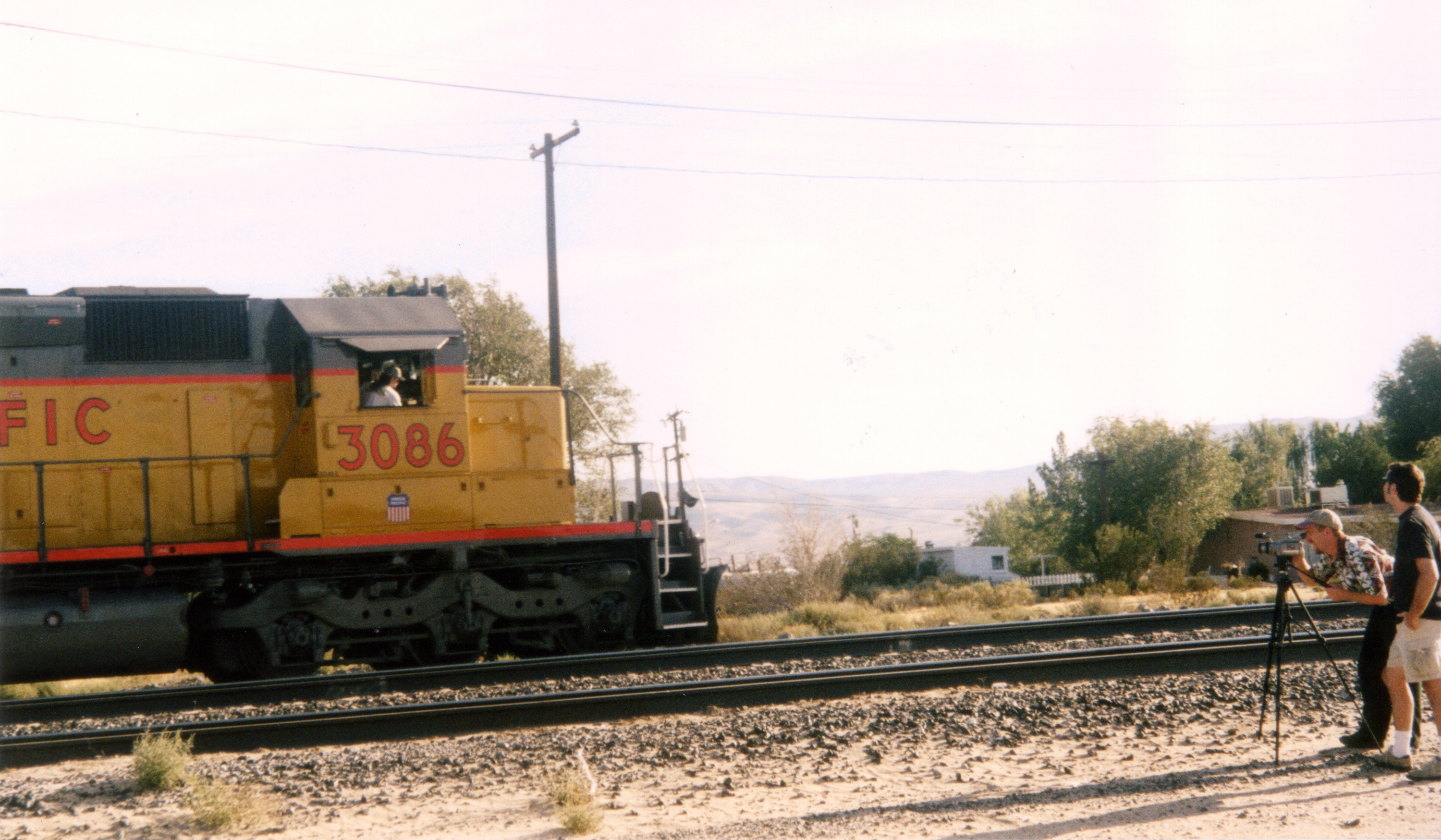 Videographer Mark Schulze videotapes a passing train outside of Las Vegas, 1998 as Mike Sterner observes. This clip resides in the stock footage library of New & Unique Videos of San Diego. Photograph by Patty Mooney, Crystal Pyramid Productions, San Diego, California.